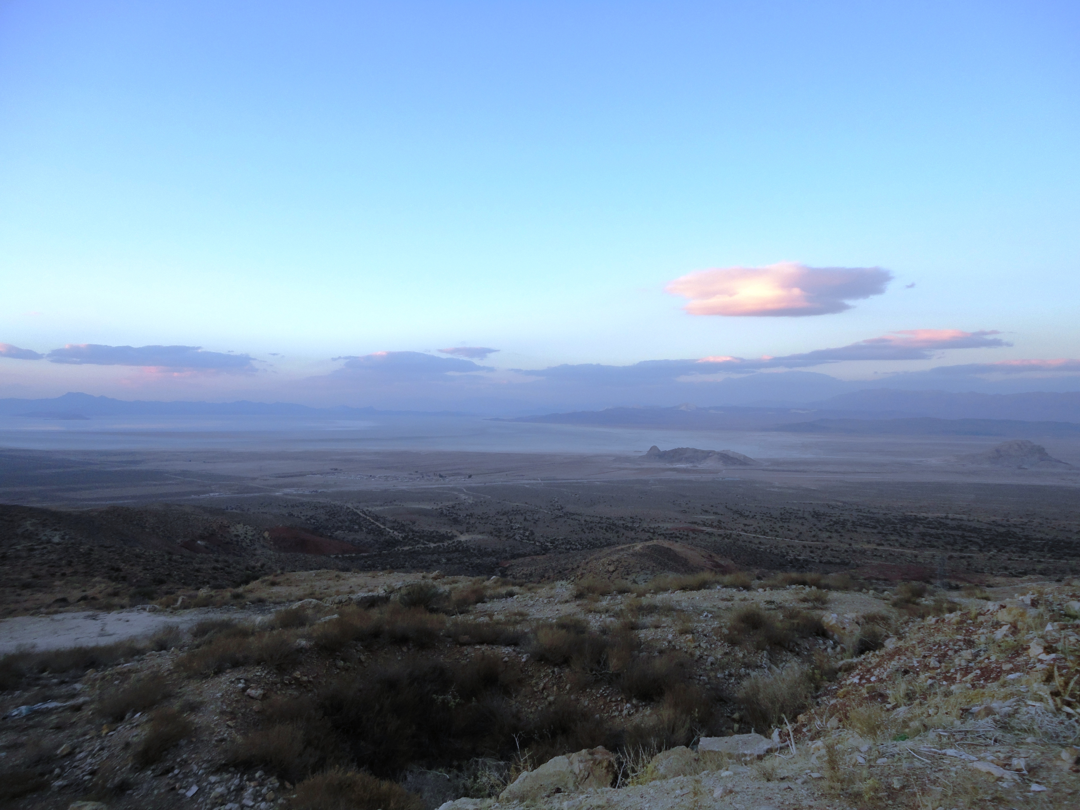 Bakhtegan Lake